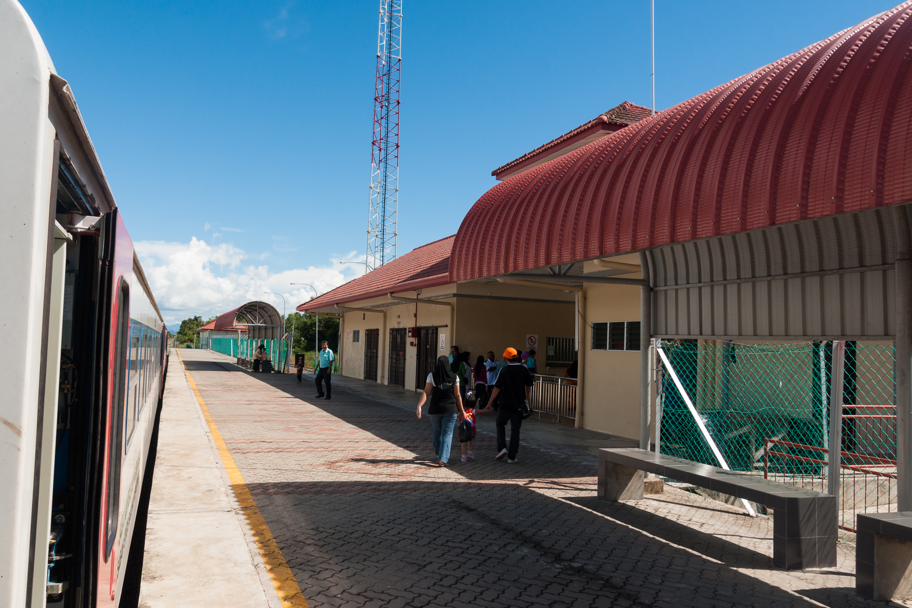 Sabah State Railway: Station Plate of Kimanis Railway Station